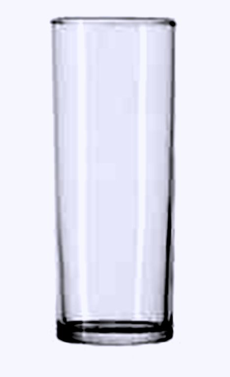 Collins Glass